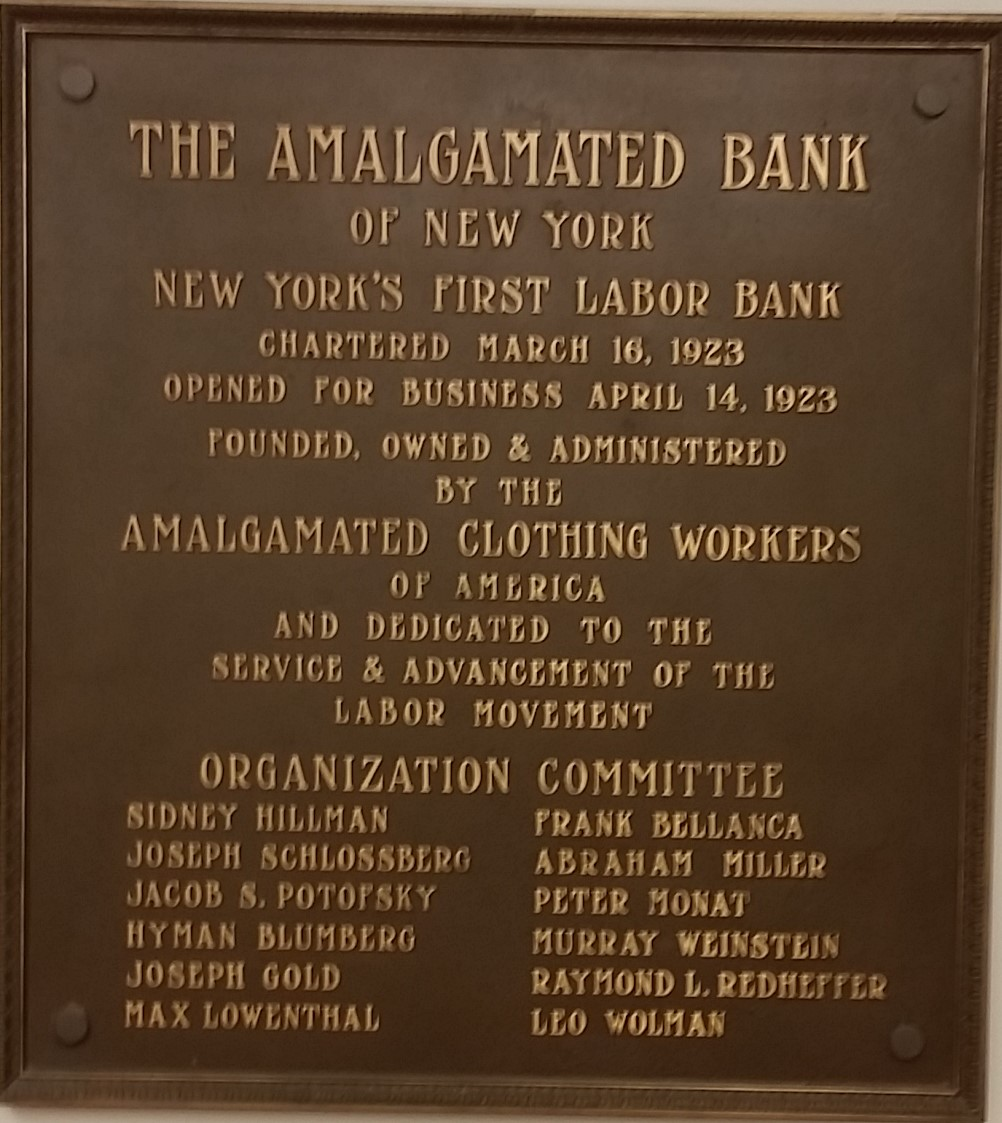 This is the, possibly historic, plaque in the lobby of Amalgamated Bank's HQ at 275 7th Ave NYC